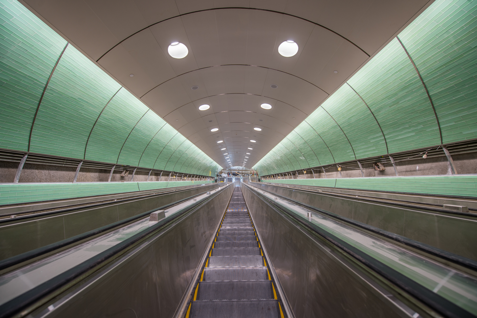 45th Street passenger escalator wellway